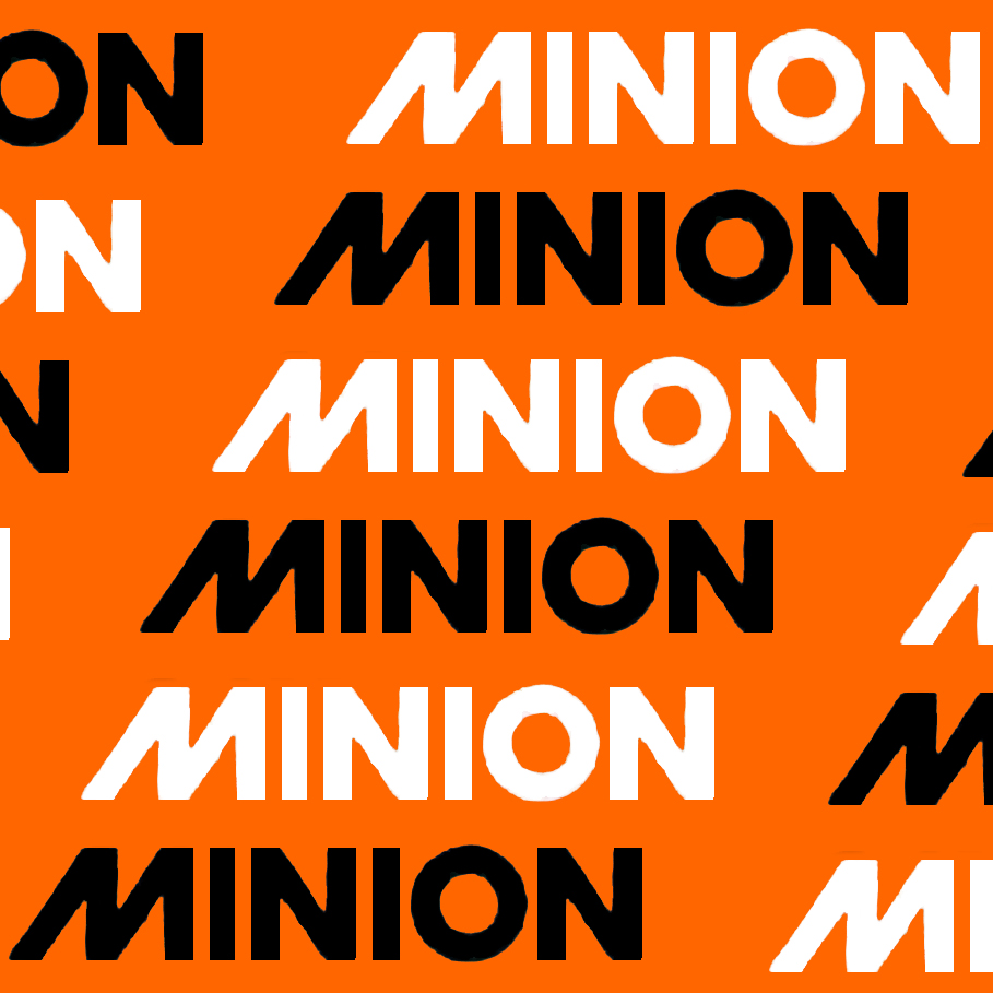 Remake of Minion Logo